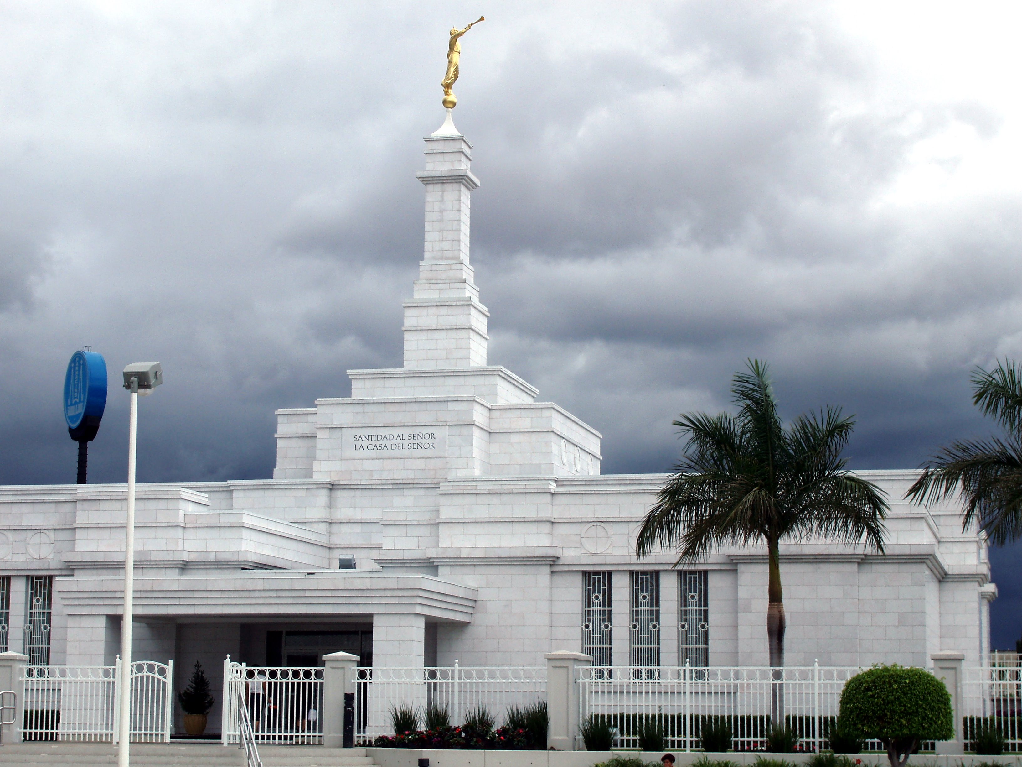 The Guadalajara México Temple of The Church of Jesus Christ of Latter-day Saints.